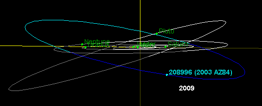 The orbit of (208996) 2003 AZ84 compared to Pluto and Neptune. This small plutino currently stays outside the orbit of Neptune even though its orbit is dominated by Neptune.